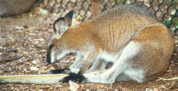 Macropus parryi, a species of Macropodidae